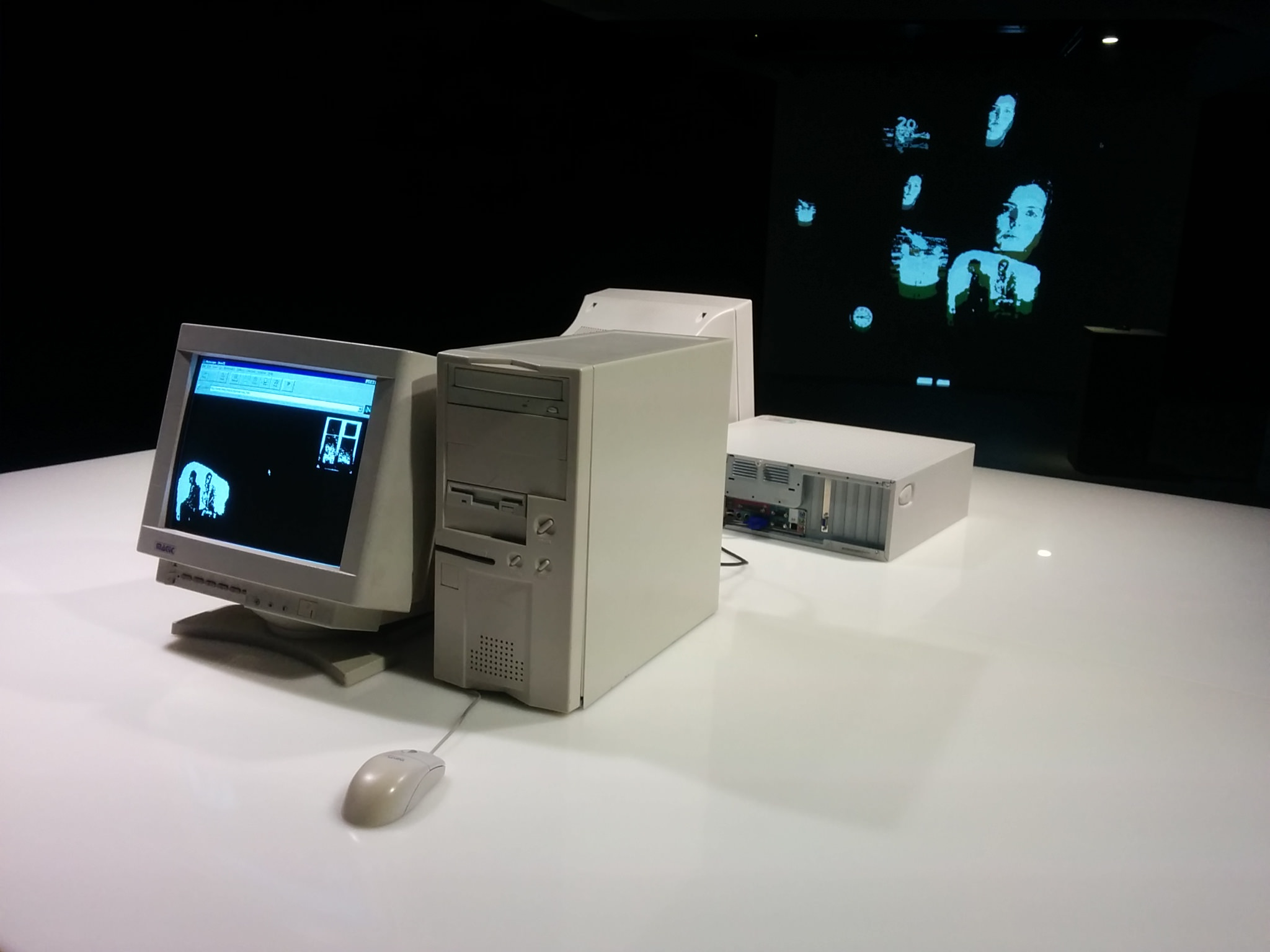 Olia Lialina's show in Basel